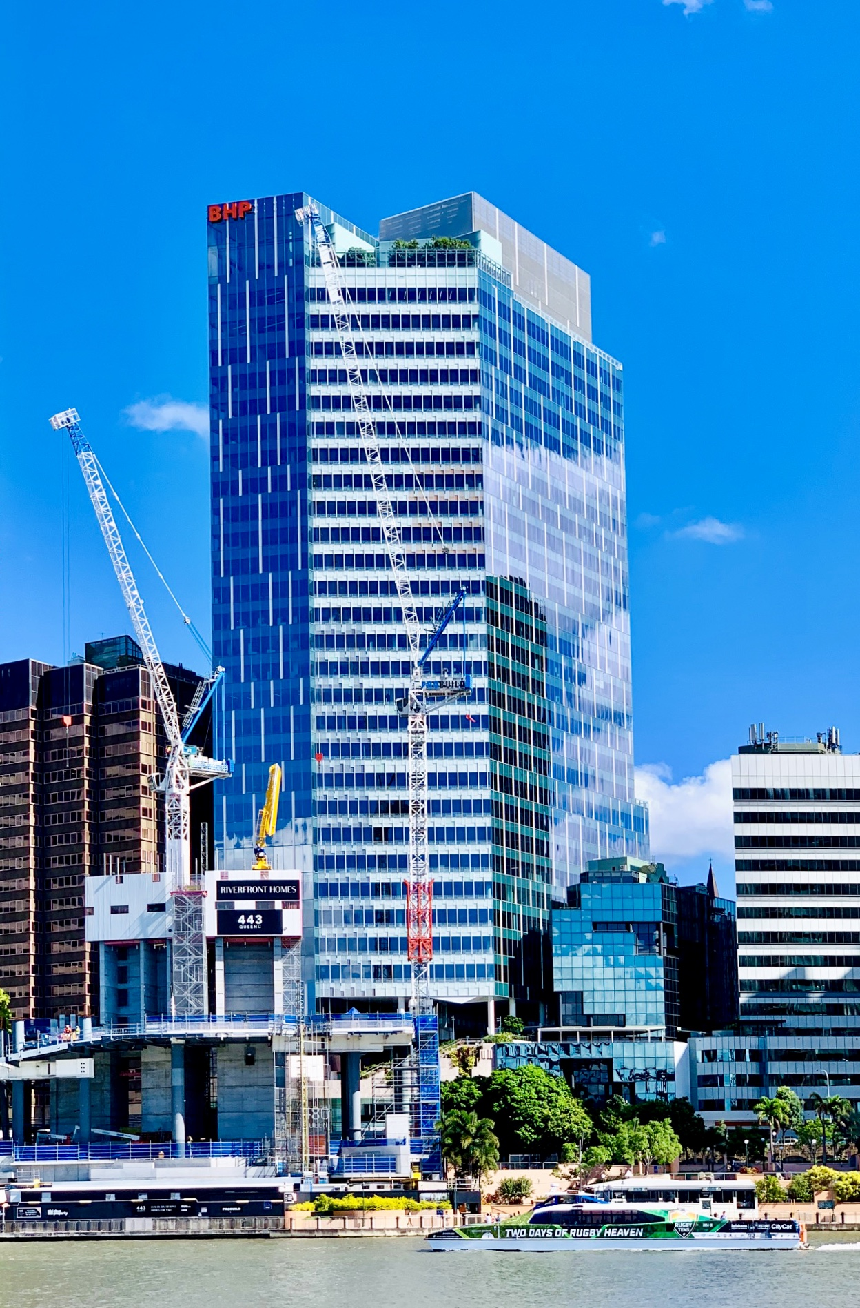 River views of Brisbane CBD seen from Kangaroo Point, Queensland in April 2019